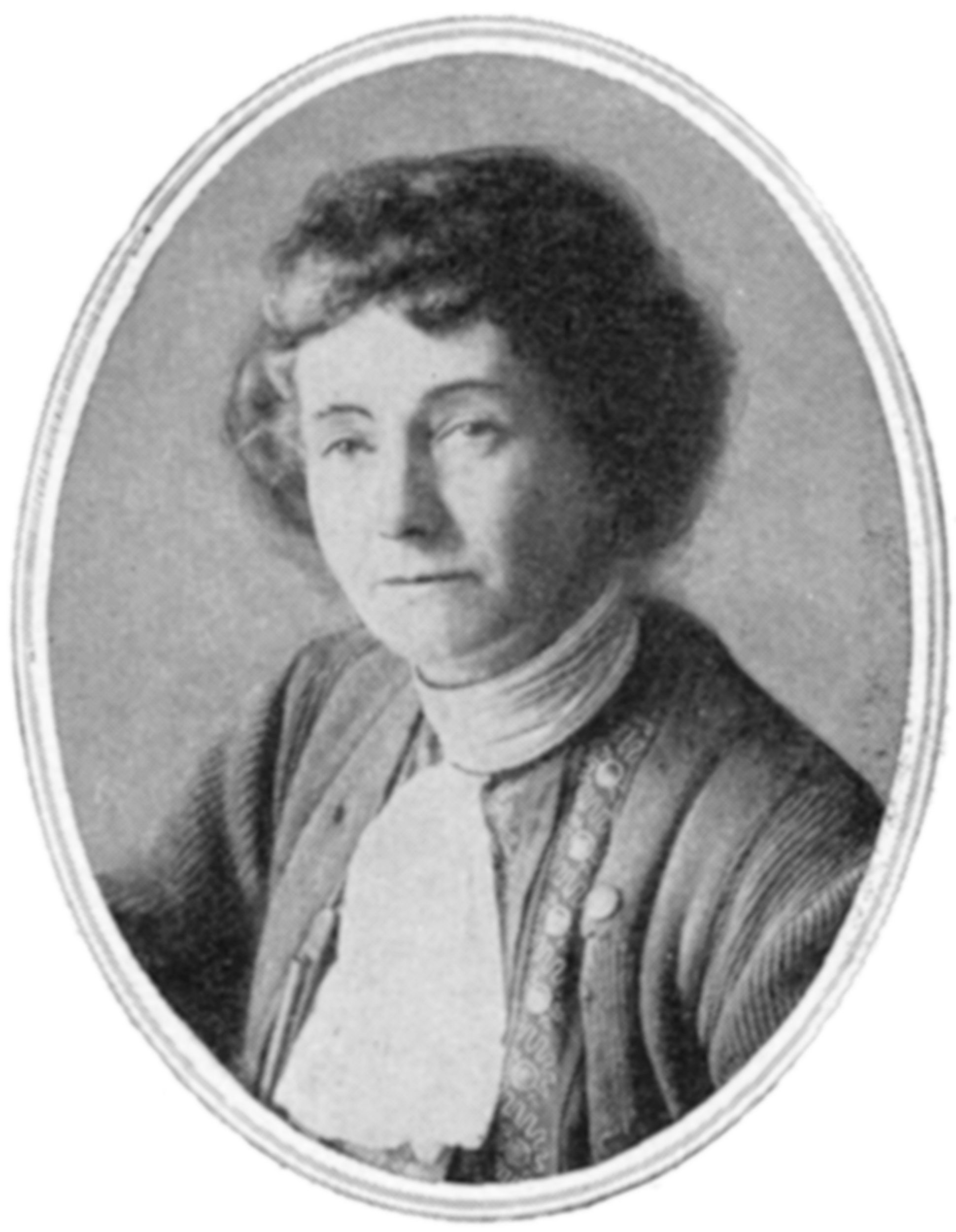 The suffragette Emily Davison in c. 1912-13